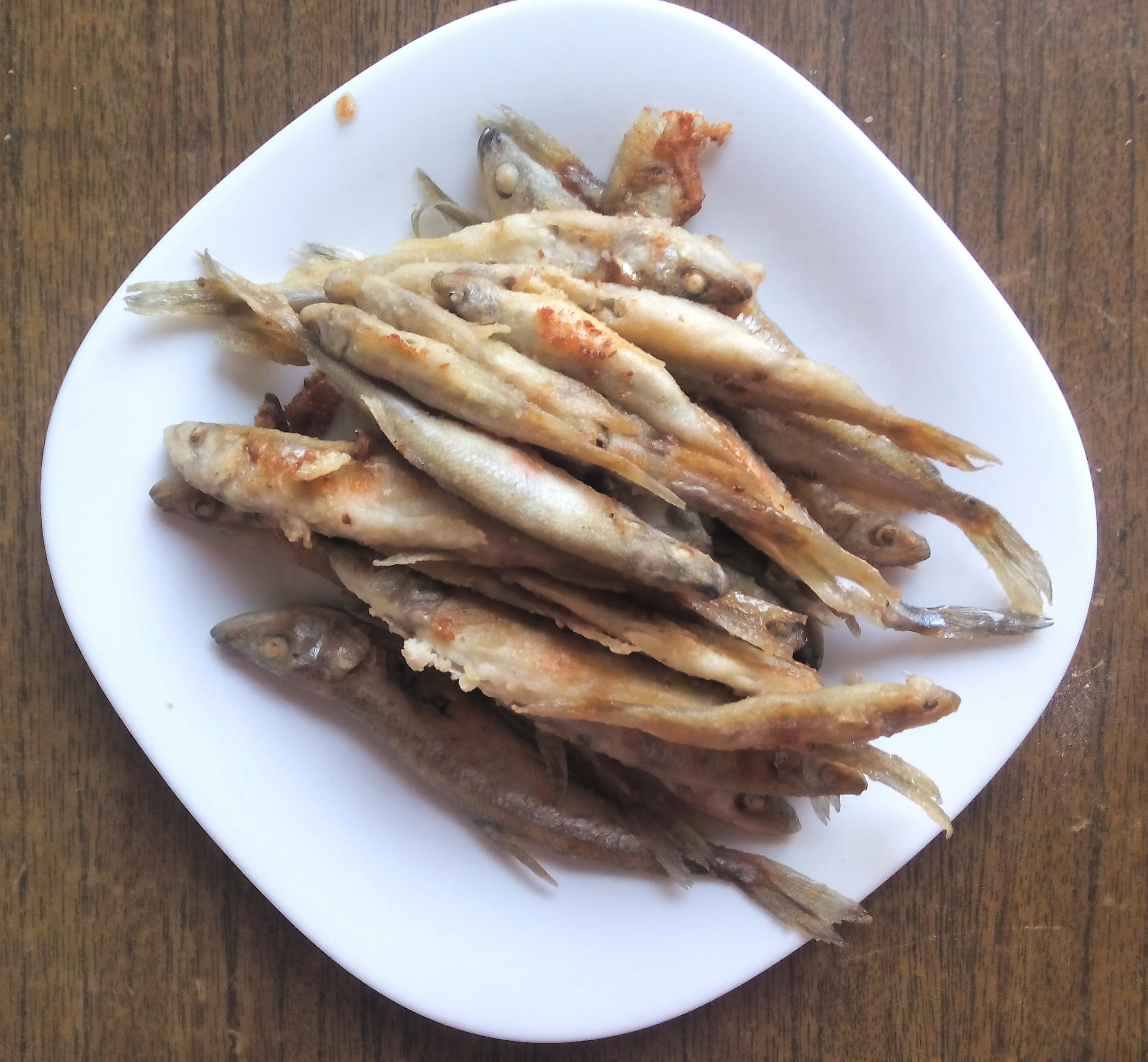 Fried smelt from Saint Petersburg